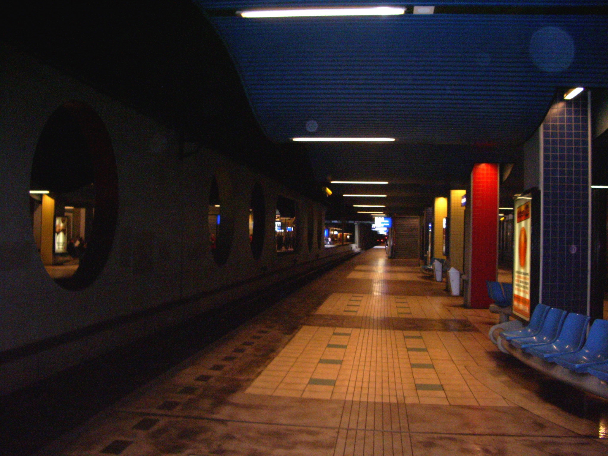 Railroad station Rotterdam Blaak, the Netherlands.